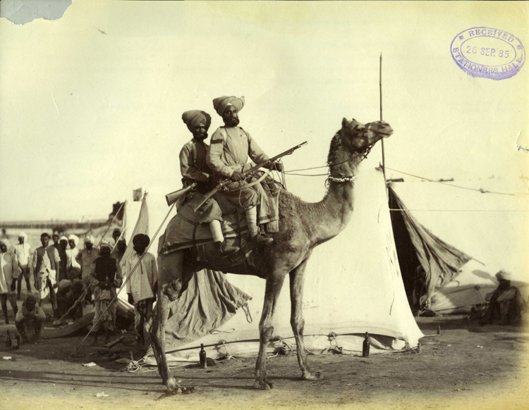 Historic photograph of British troups in military campaign in Sudan, ca. 1884/85.